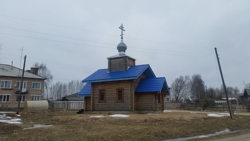 Часовня Иконы Божией Матери Достойно Есть в Теребино